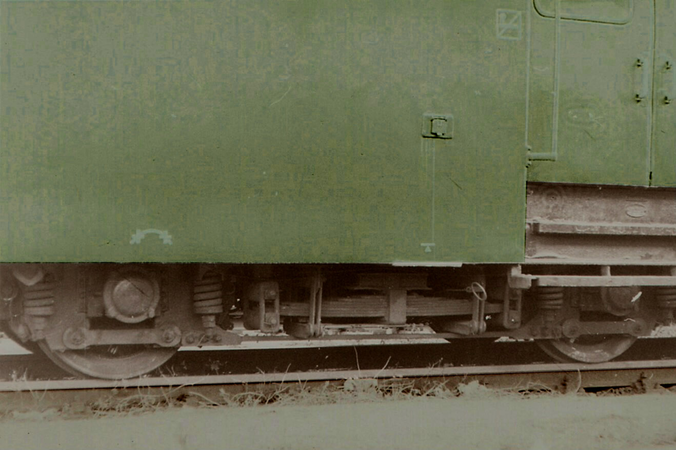 End bogie of the double-deck unit ČSD class Bpjo